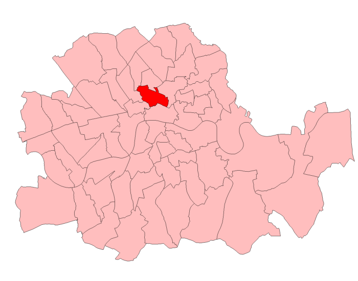 A map of Finsbury constituency within the London County Council area, as it existed from 1918 to 1949.